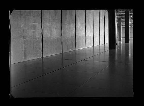 Jaroslav Beneš: Untitled, negative 13x18 cm